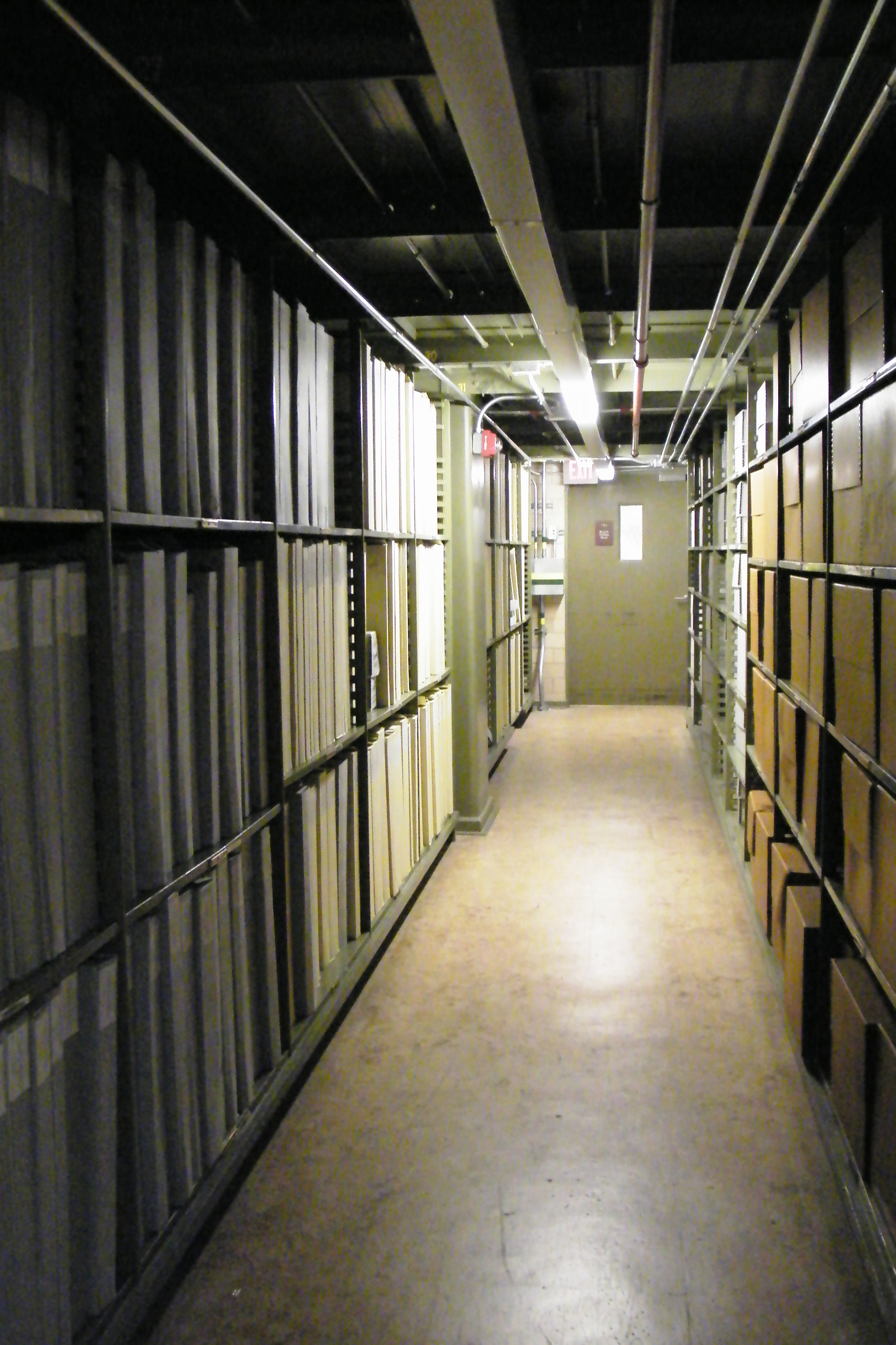 Storage hallway at the National Archives I building. This was taken with permission at the Wikipedia 10 Washington D.C. event.